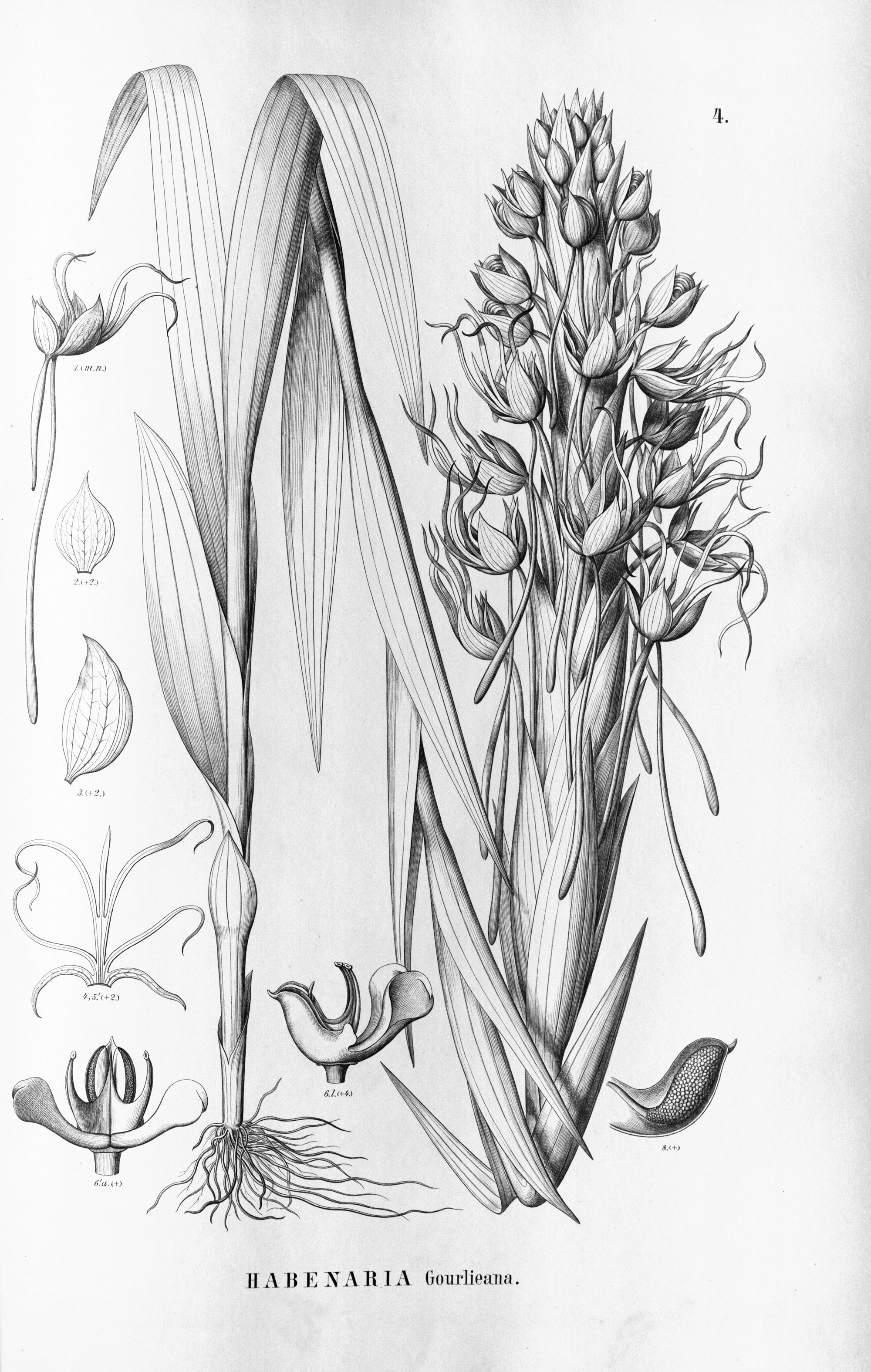 Illustration of Habenaria gourlieana